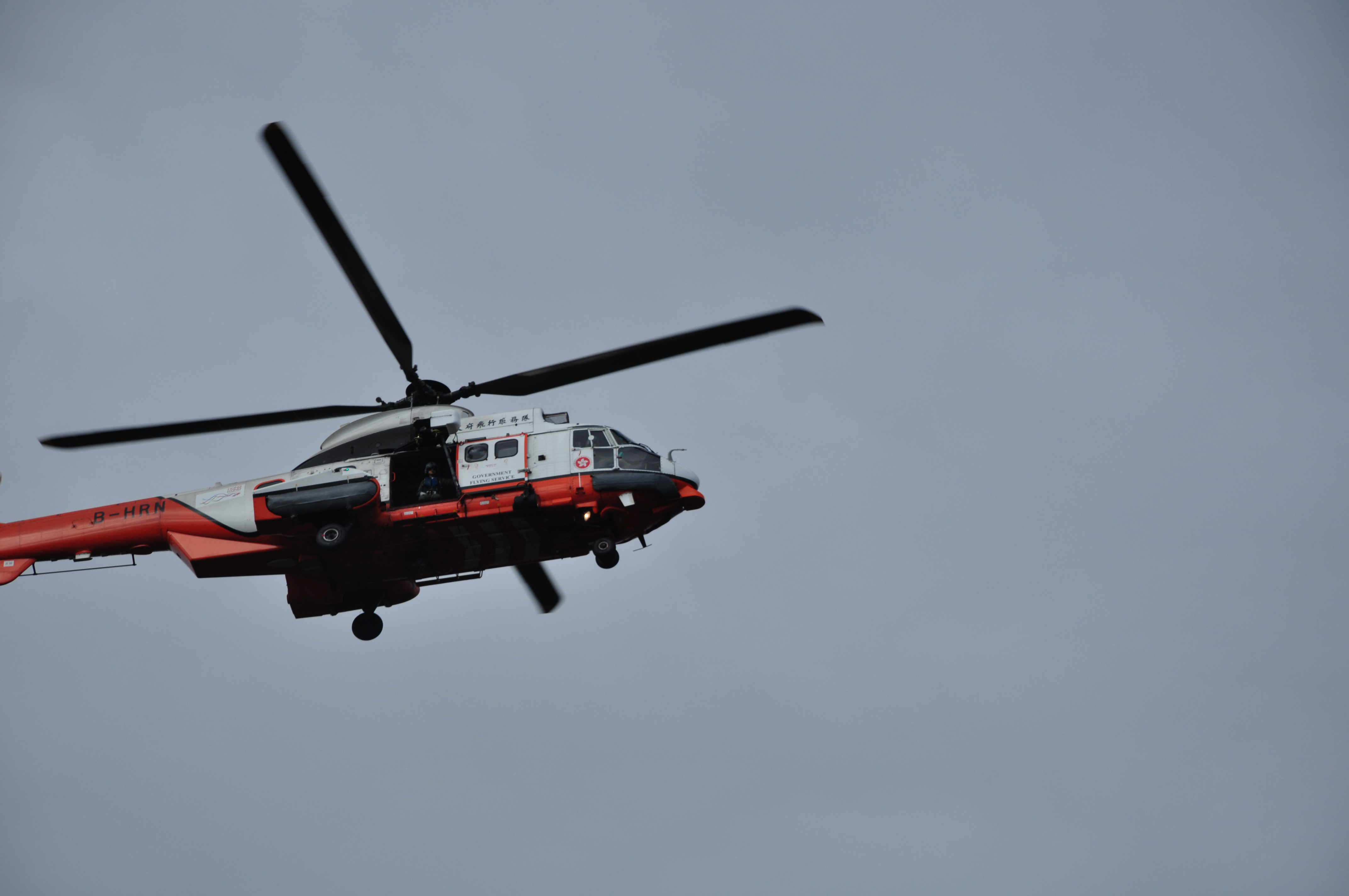 Hong Kong Government Flying Service's Eurocopter AS 332 L2 helicopter on rescue mission on 29th November, 2017 to rescue a woman who fell from ‘suicide cliff’ in Fei Ngo Shan, Hong Kong. 中文（香港）: 香港政府飛行服務隊歐洲直升機公司AS332型直升機，攝於2017年11月29日拯救飛鵝山自殺崖墮山女子任務中。